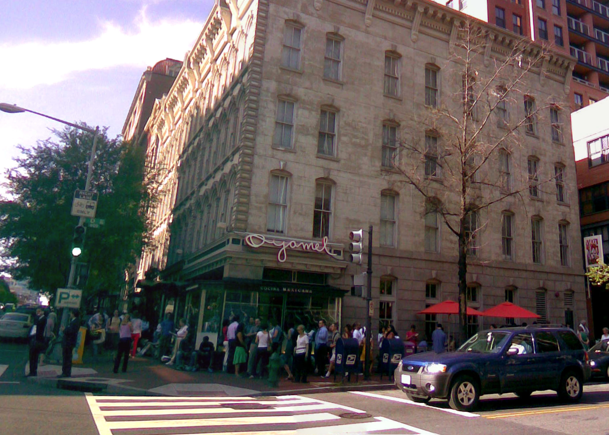 The Pay What You Can (PWYC) line outside Woolly Mammoth Theatre Company for the first performance of Second City's "Barak Stars" at about 5:45 pm EDT, 3/4 hour before the box office opened, on Tuesday July 14 2009. The line started under the Woolly Mammoth sign on "D" street (on the right side of the picture). It then went down "D" street, turning up 7th street. It eventually went at least as far as "E" street. Over 200 tickets were available max 2 to a patron. They were all gone after the first third of the patrons on 7th Street reached the box office. This is a Photoshop Photomerge from three separate images with some associated distortions around the blue SUV.